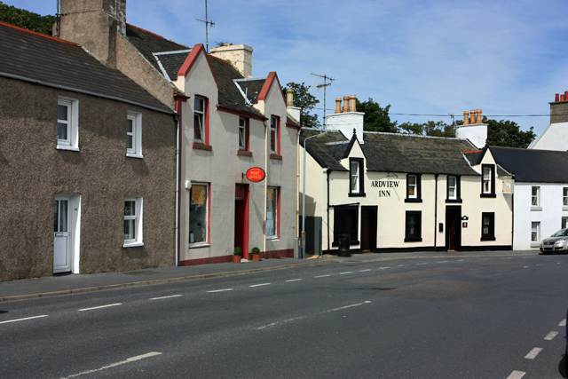 Ardview Inn and Port Ellen Post Office The Ardview Inn has a small selection if Islay Beers, and a wide selection of Malt Whiskies. The post office does not have a posting box!